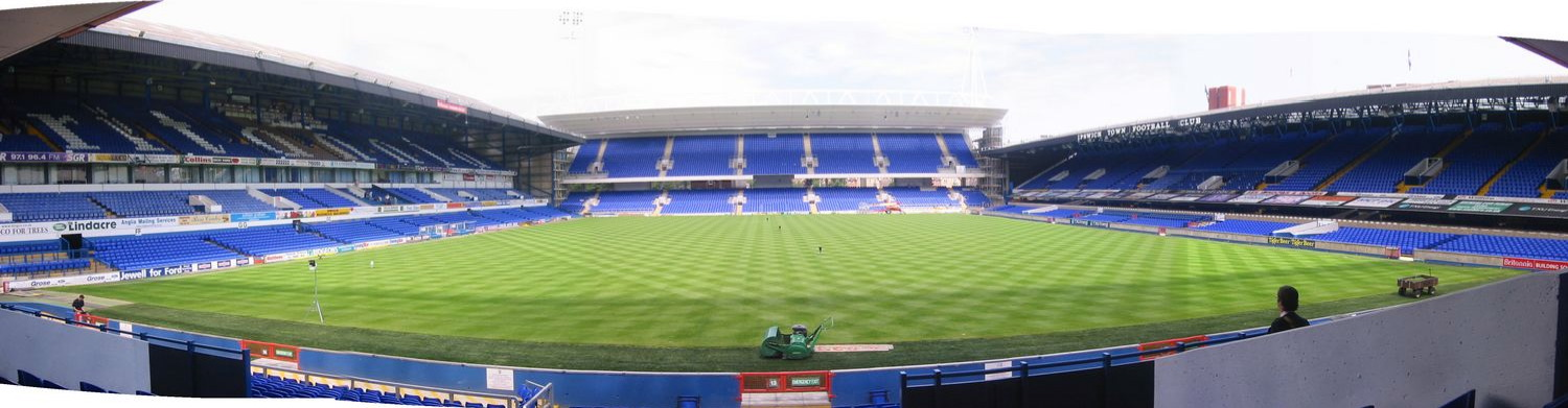 Panorama of Portman Road, Ipswich Town Football Club